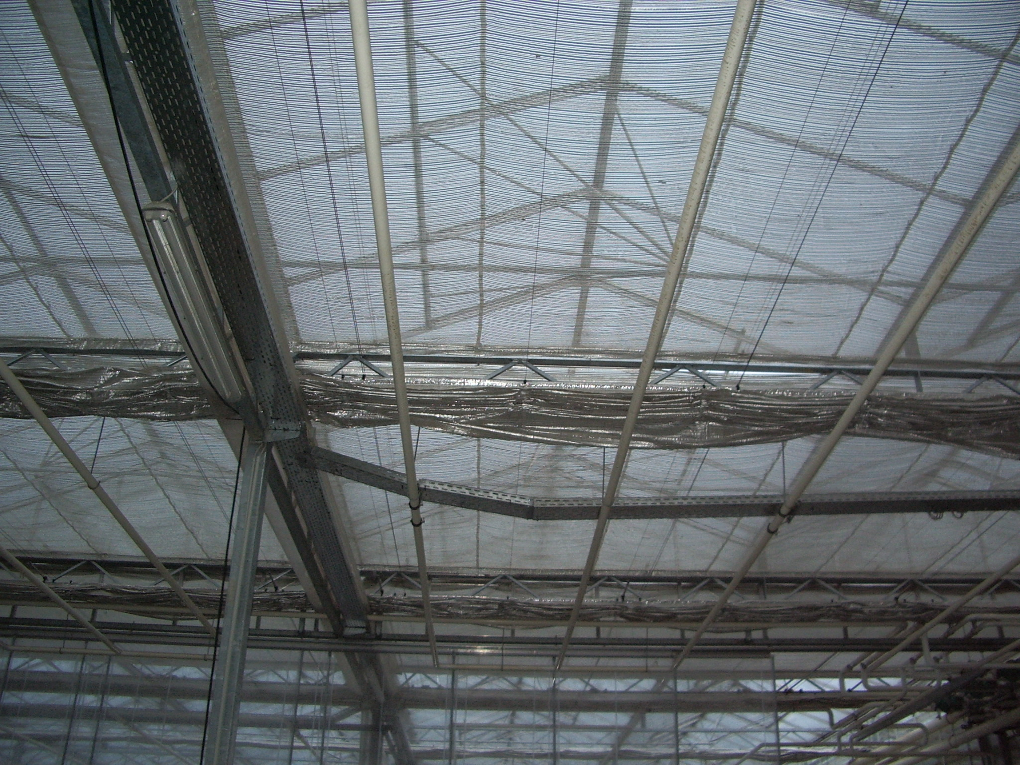 double layered screen for greenhouse, below the unfolded screen one can see the closed second screen for shading. Below are white heating pipes. author: Martin Fischer